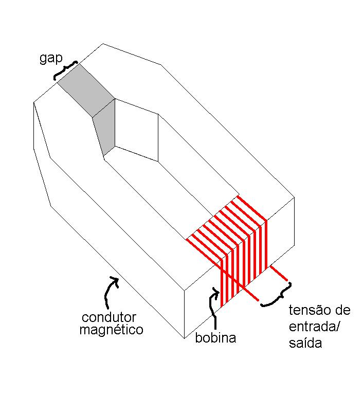 This schem shows the physical structure of a tape head.